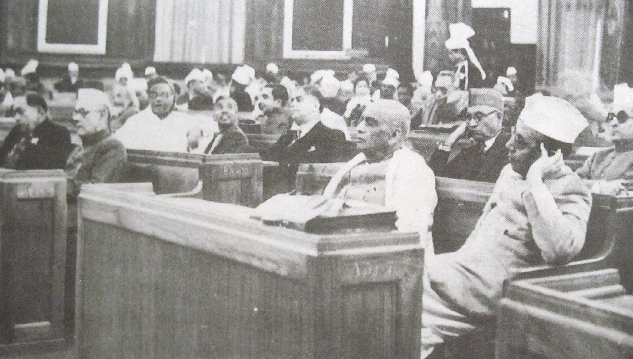 First day of Constituent Assembly of India. In the first row (From Left): Dr. B. R. Ambedkar, B. G. Kher, Vallabhai Patel and K. M. Munshi.